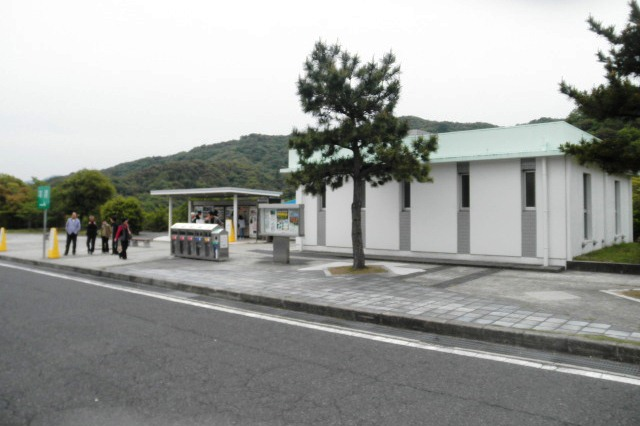 Midori P.A down line